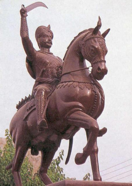 This image contain Historical personality of Mahoba UDAL